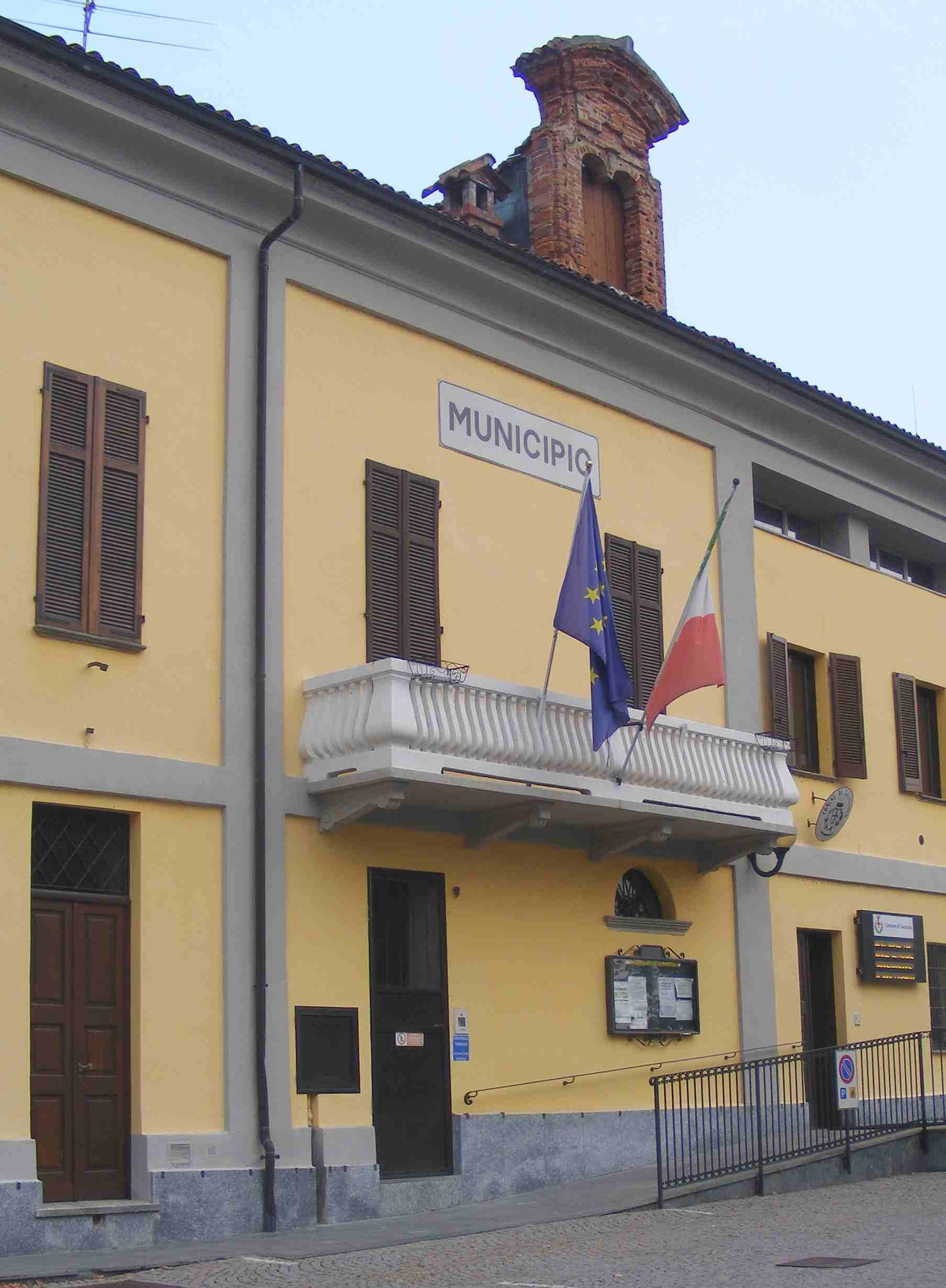 Salussola (BI, Italy): town hall